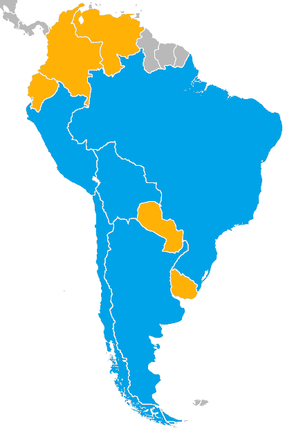 Map of the zones the nations of the 2019 South American Beach Soccer League are competing in. (Orange: North zone; Blue: South zone) Update of File:2019 South American Beach Soccer League map of nations.